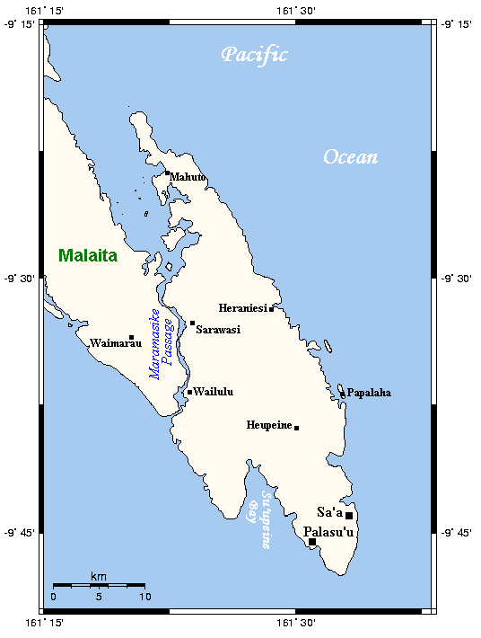 Map of Maramasike in the Solomon Islands with main towns and a few villages